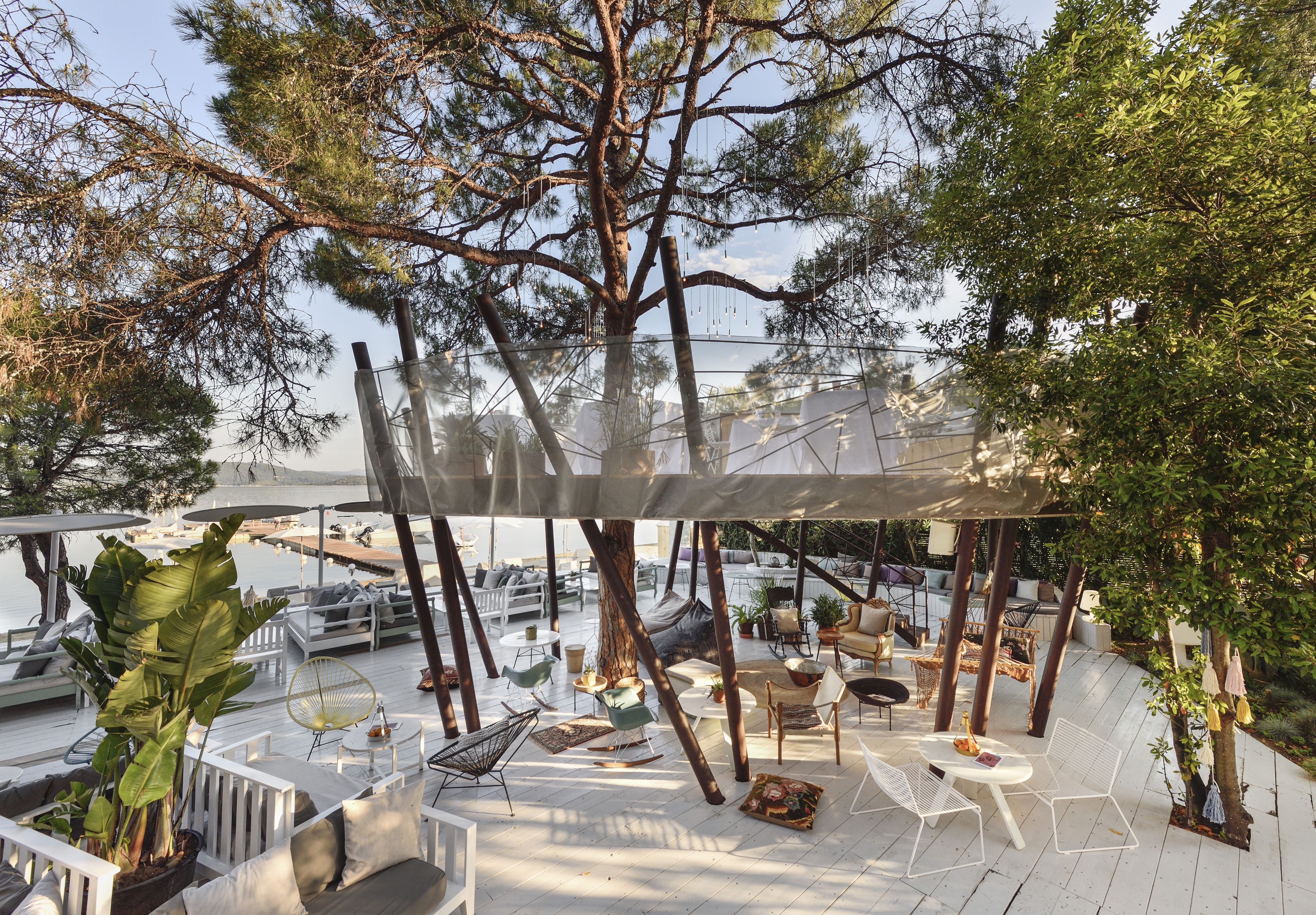 The Treehouse at ekies all senses resort, 2017